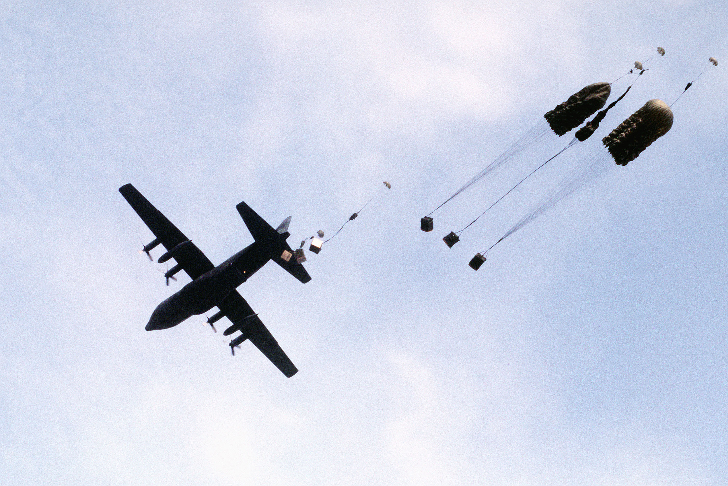 A C-130 Hercules aircraft drops supplies by parachute to troops during Exercise Volant Shield. The exercise's scenario involves the defense of a dirt landing strip by contingency support forces of the Military Airlift Command in an allied Third World country.